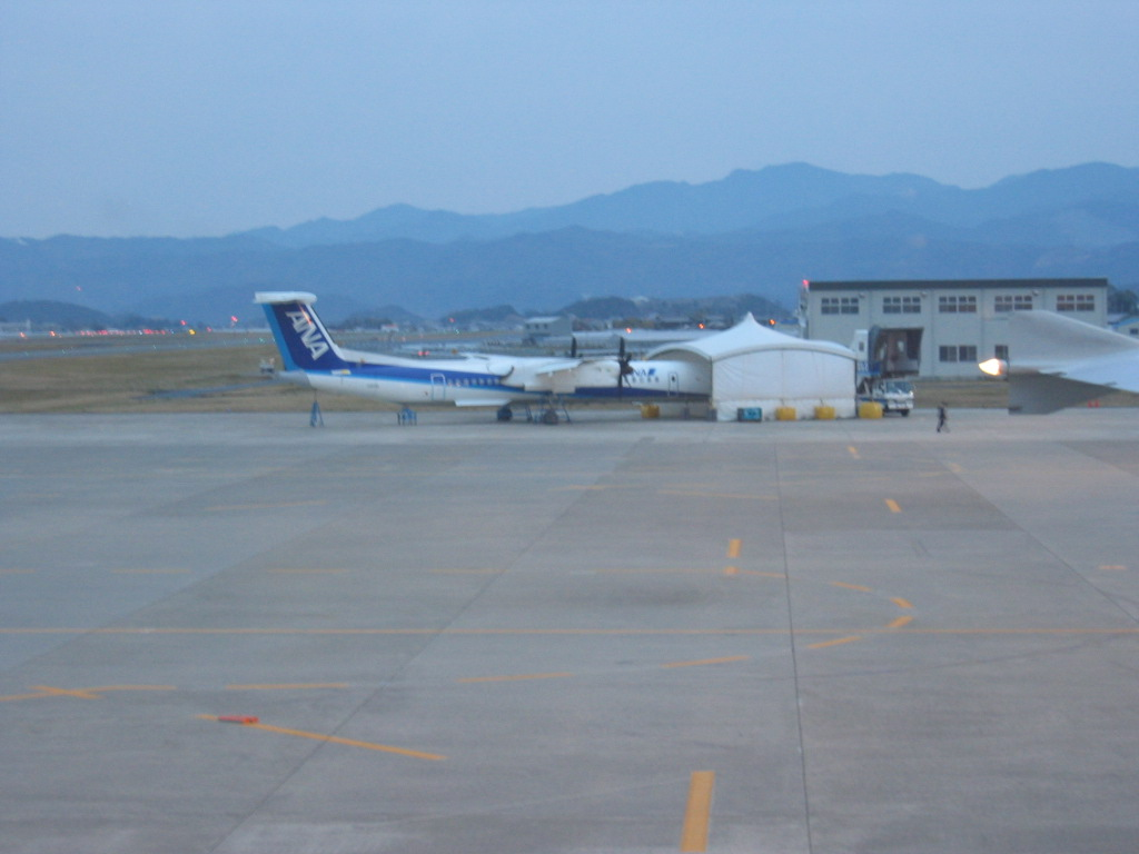 De Havilland Canada Dash 8 repairing in Kochi airport